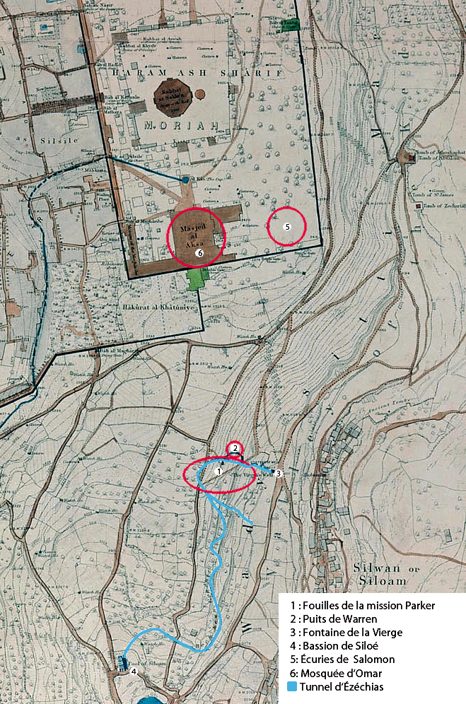 A large topographic detailed map of Jerusalem. Revised edition (1876) of one of the first measurment maps of the city. Originally prepared by Charles Wilson, as part of the British Ordnance Survey of Jerusalem, 1864-5. Location of Parker's mission excavations based on Ronny Reich's Excavating the City of David: Where Jerusalem's History Began.